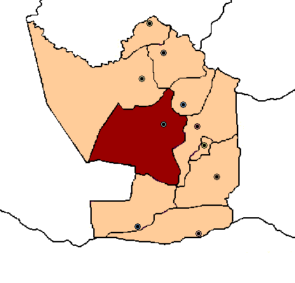 San Ignacio Guasu within the Misiones Department, Paraguay.